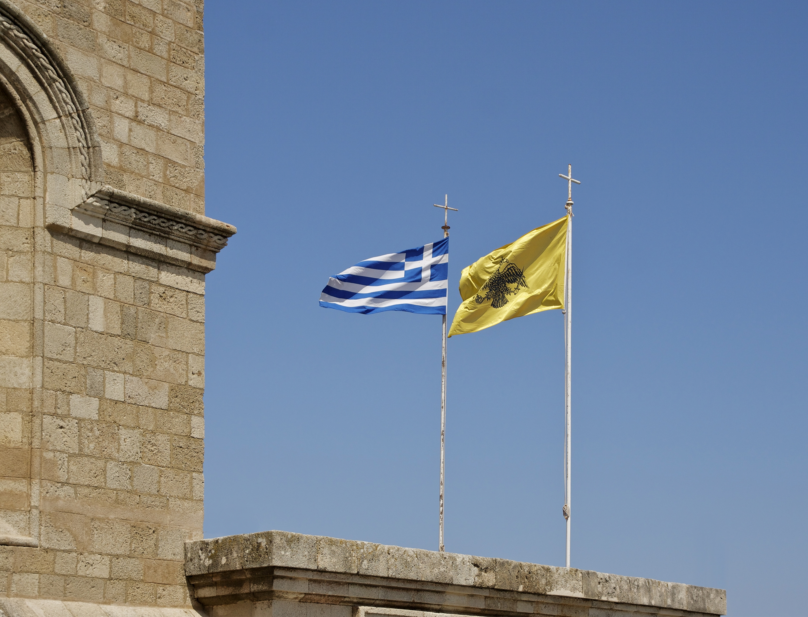 The flag of the Greek Orthodox Church (commonly misinterpreted as the flag of the Byzantine Empire), and the Greek flag. Greek orthodox religion is religion of the state in Greece. These two flags are hoisted near every church in the country.